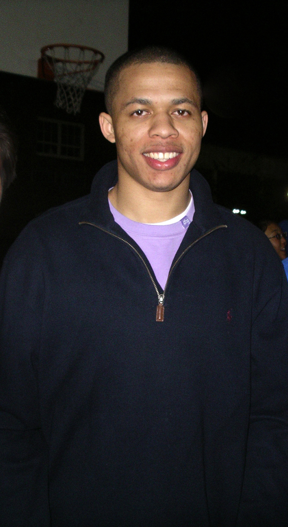 Jonathan Wallace, Georgetown Hoyas men's basketball team player, visits with students camped out for Final Four 2007 tickets